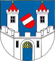 Coat of Arms of Roudnice nad Labem (Czech Republic).